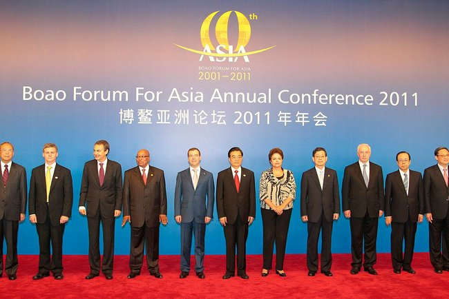 Delegates at the Boao Forum for Asia Annual Conference 2011.